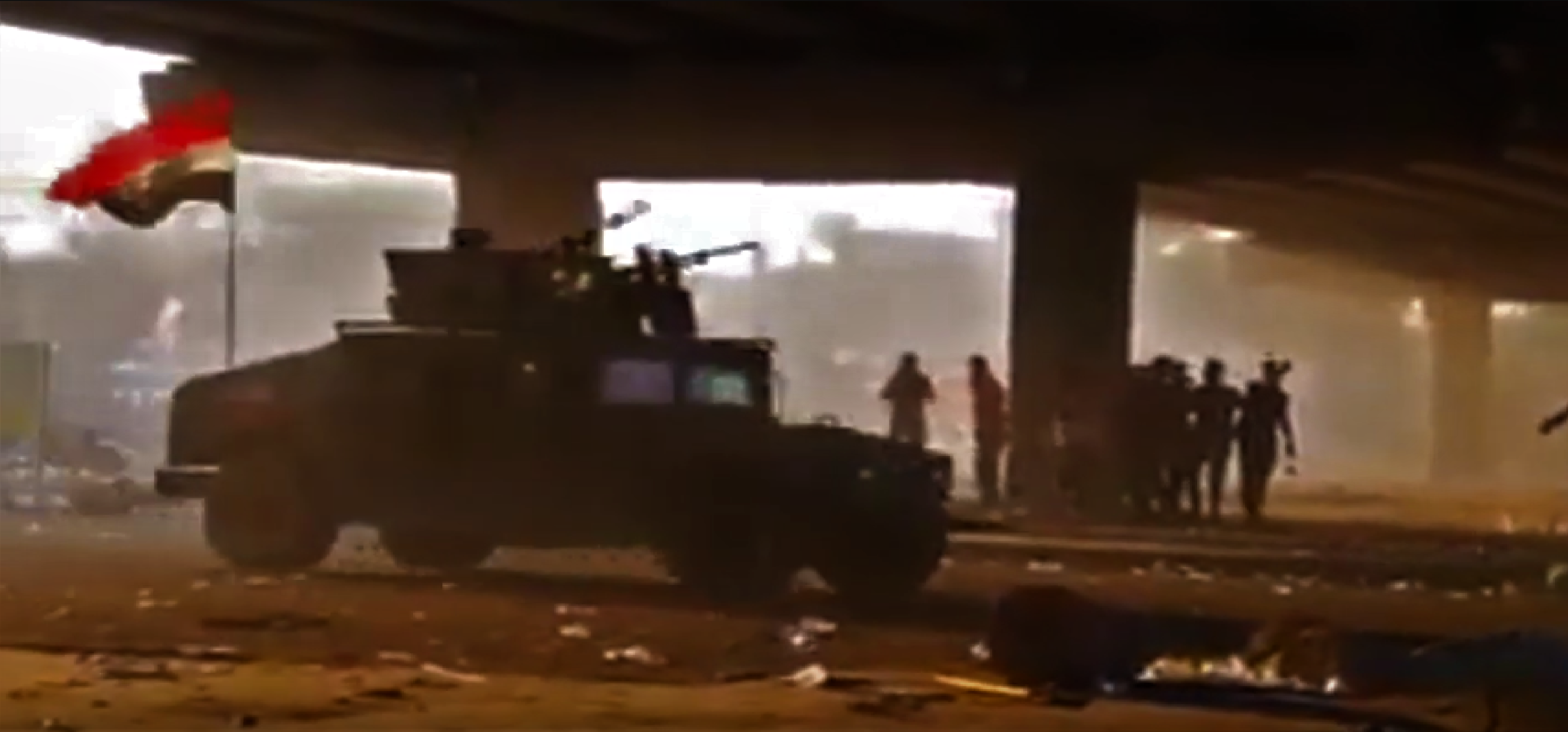 Protests in Iraq in October 2019, which began since 2018 on issues of corruption and state crisis.